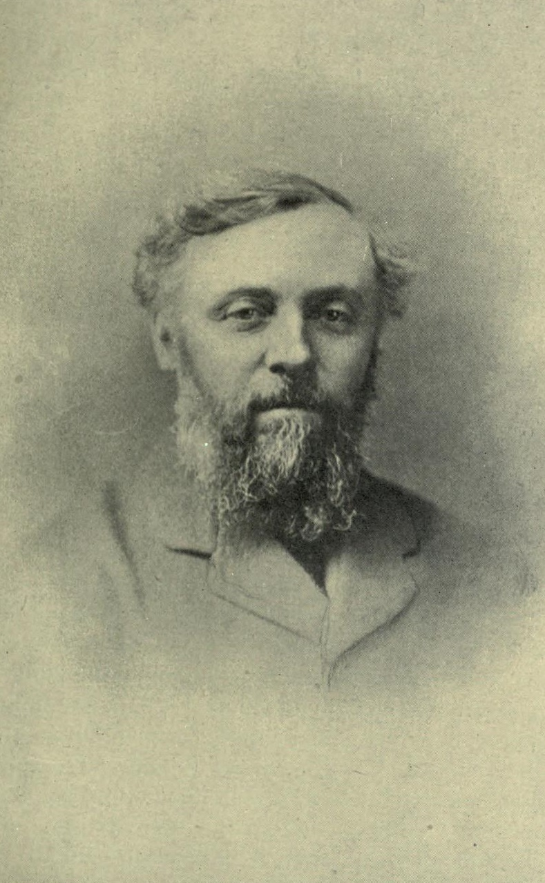 Portrait of James Augustus Cotter Morison